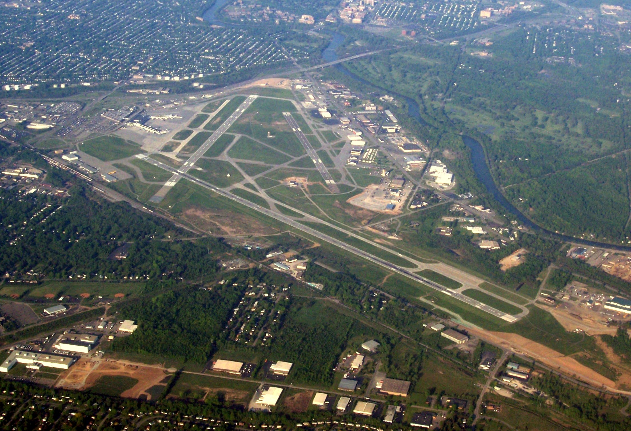 Aerial View of the Greater Rochester International Airport